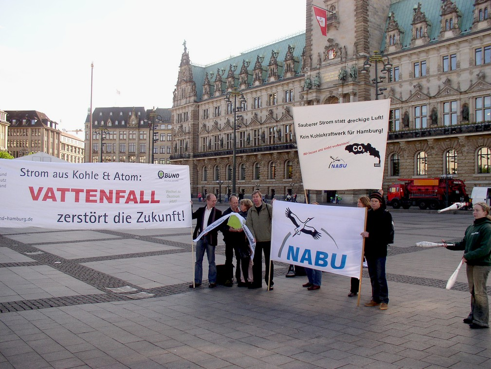 Protest against planned coal-fired power plant in Hamburg, Germany.12000 gegen Moorburg